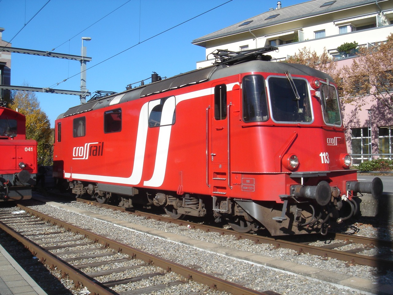 Crossrail locomotive Re 436 113 waiting for its duty as container train banker